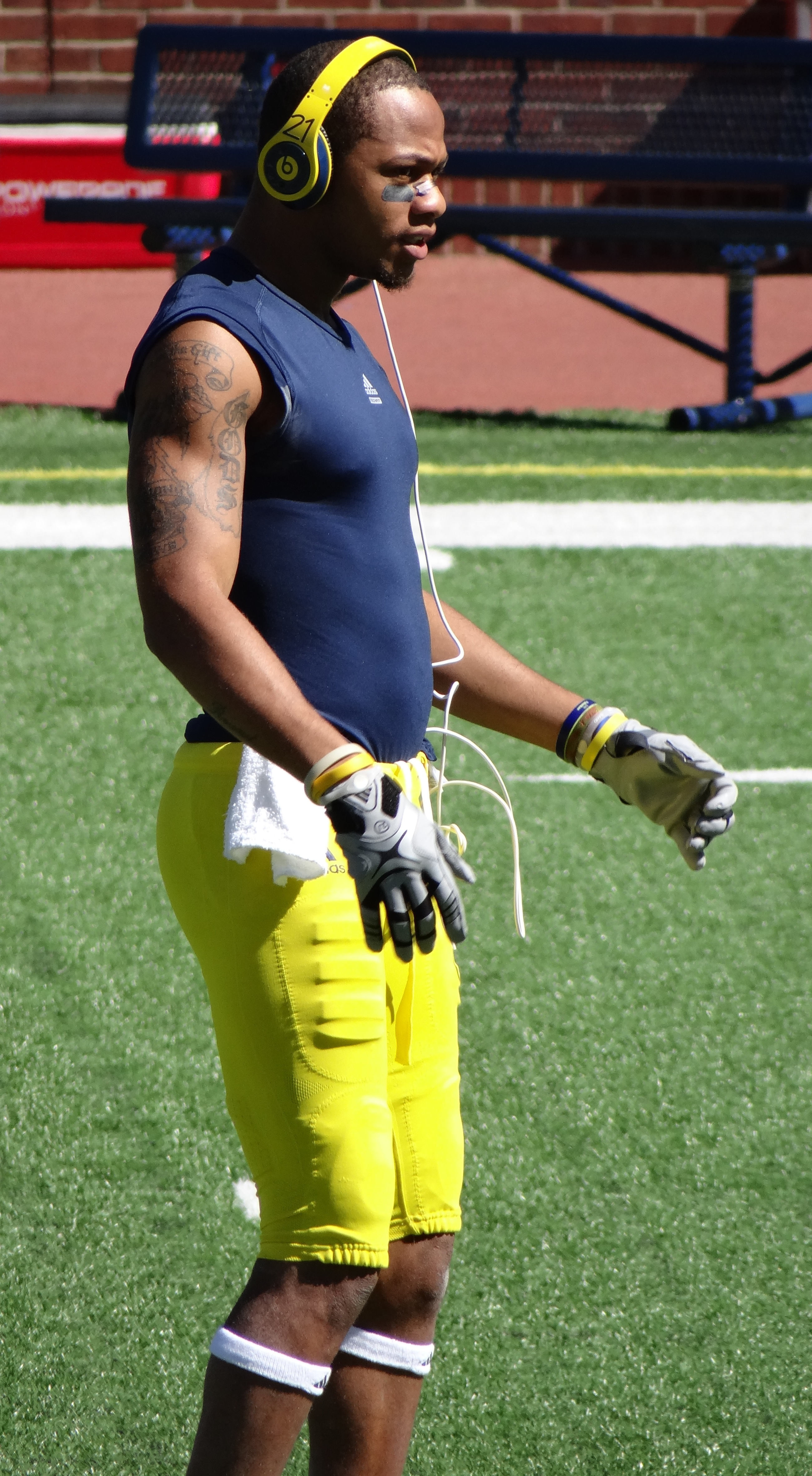 Michigan wide receiver Roy Roundtree during pregame warmup before UMass game